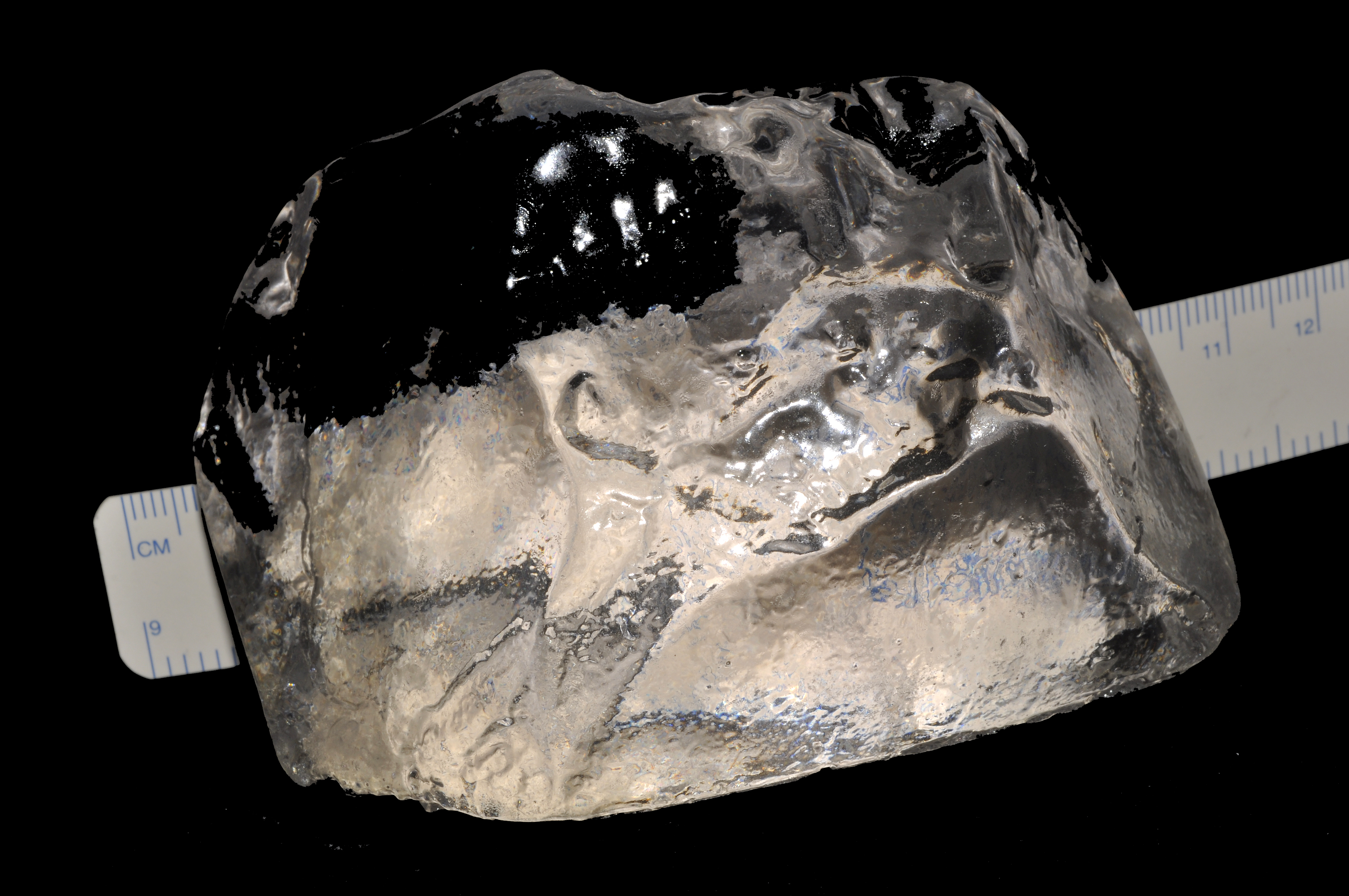 Identical reproduction, in resin, of the Cullinan diamond, the largest diamond ever found, 3106 carats = 621.2 gr. It was found in 1905 in the Premier Mine near Pretoria, South Africa. The rough stone was cleaved into 9 large stones and 96 smaller stones. The two largest stones, Cullinan I (106.04 carats = 530.2 gr) adorns the scepter of the crown jewels of the United Kingdom and Cullinan II (317.4 carats = 63.48 gr) adorns the banner of the royal crown of the United Kingdom.